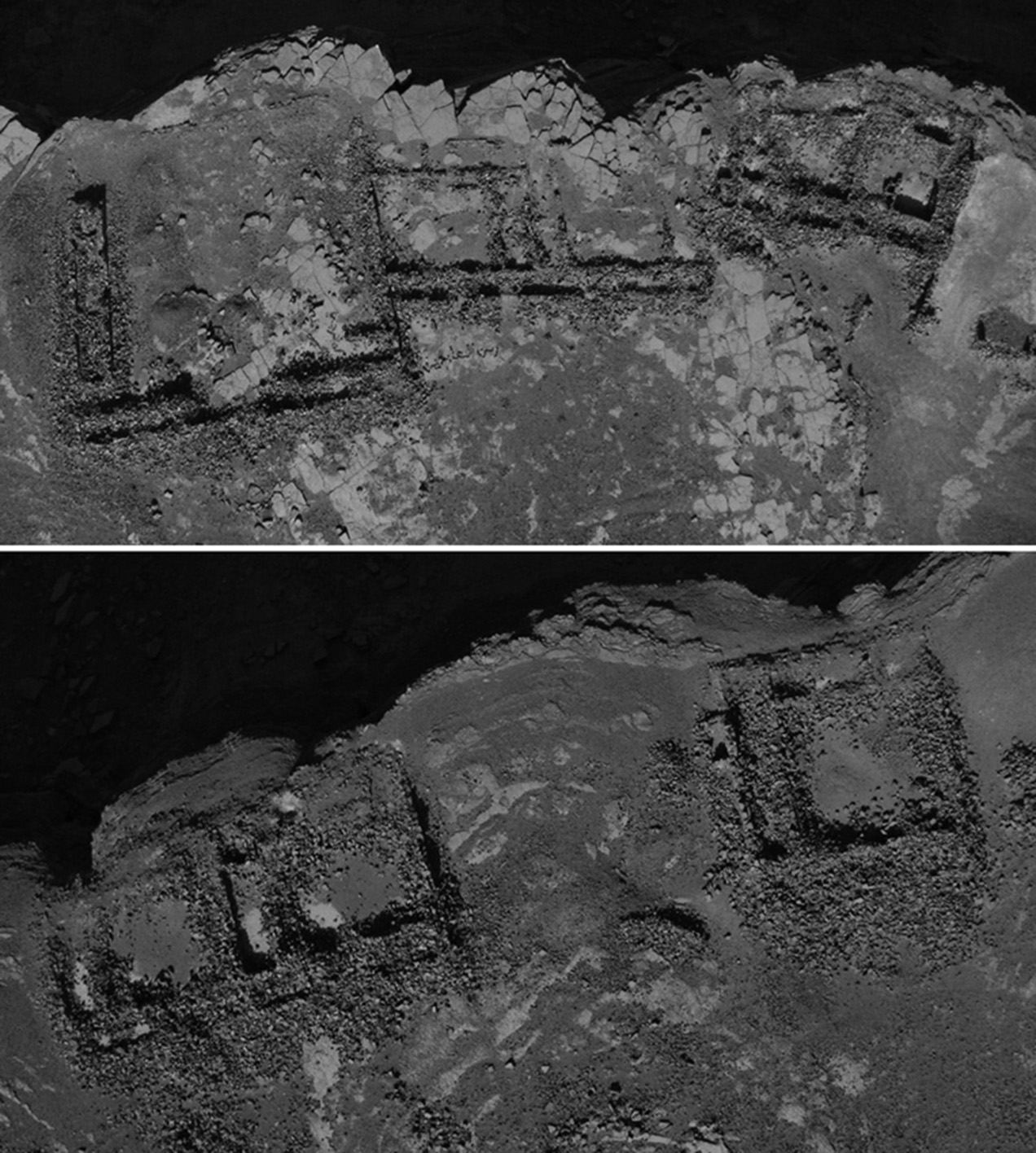 Aerial view of houses on the heights of Jebel Mudawwar/Gara Medouar, Morocco; photo by Chloe Capel